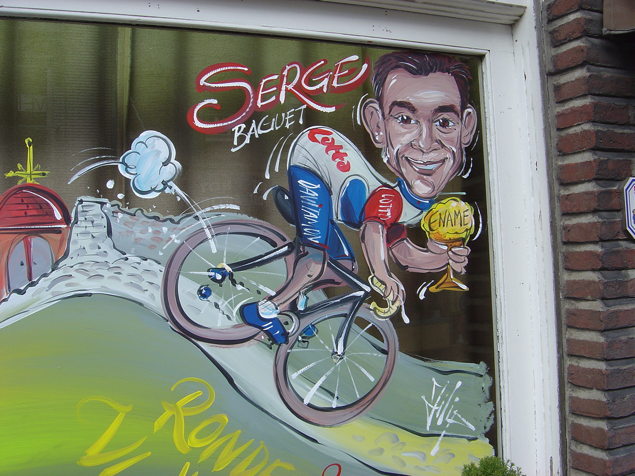 Cartoon Baguet Serge